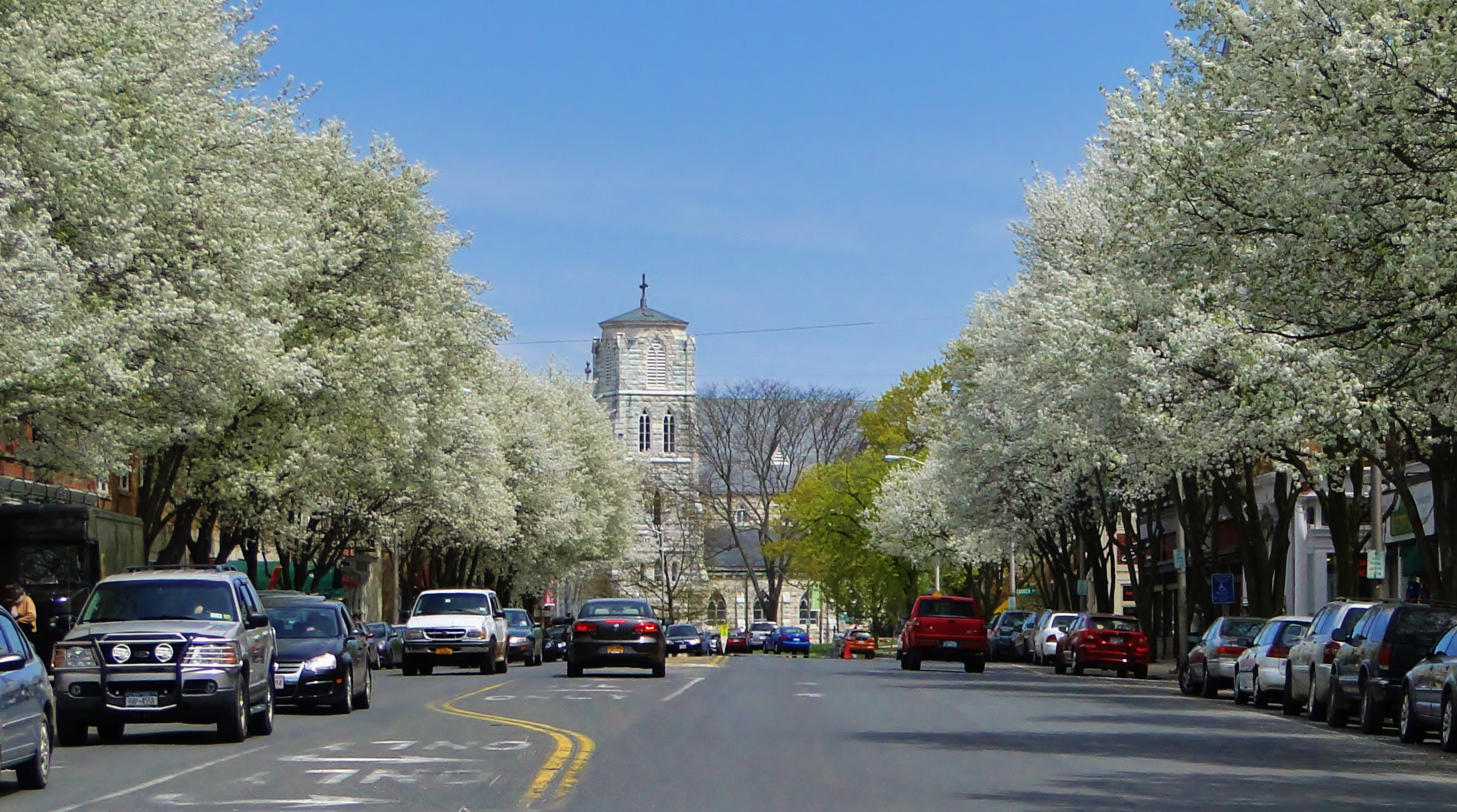 Main Street Great Barrington, Massachusetts in the Spring of 2011